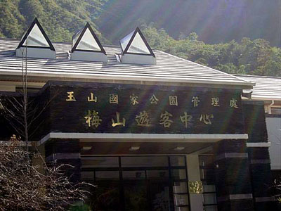 Tourist Center in Mei-Shan. Inside of Yu Shan National Park 中文（台灣）: 1內政部營建署玉山國家公園管理處梅山遊客中心。